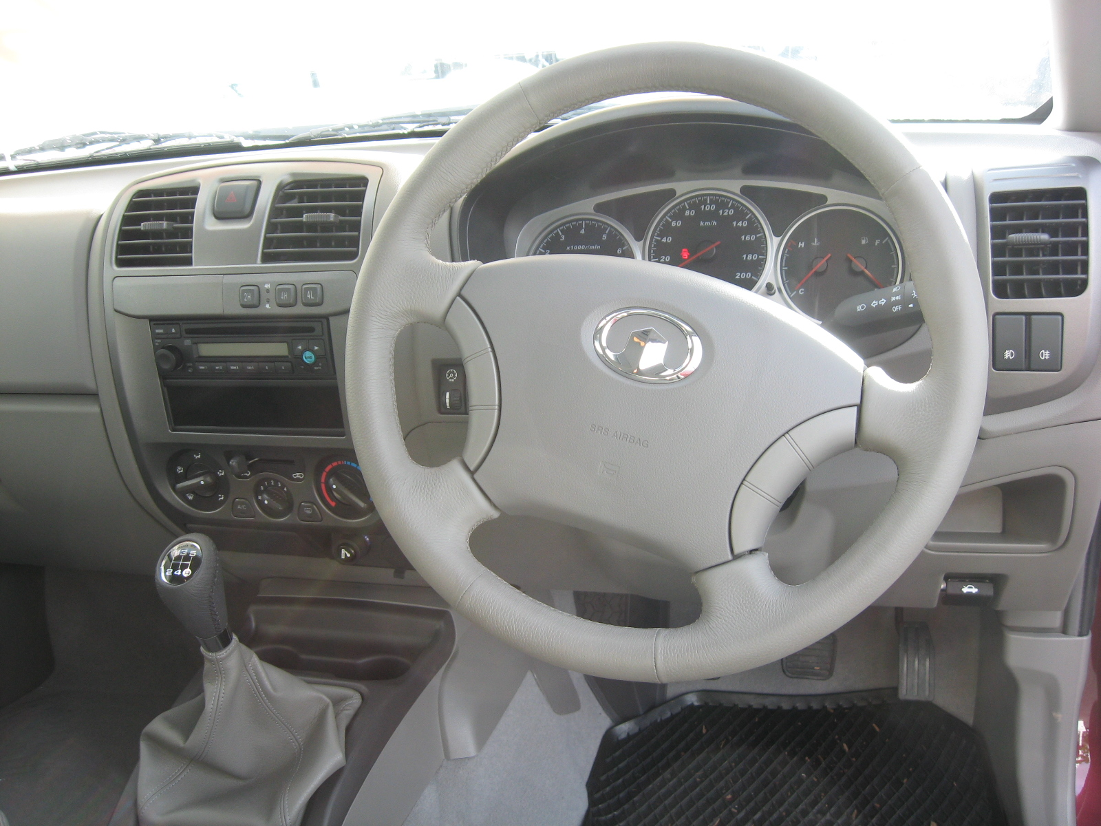 Great Wall Motors Australian spec V240 known as Wingle or Steed.